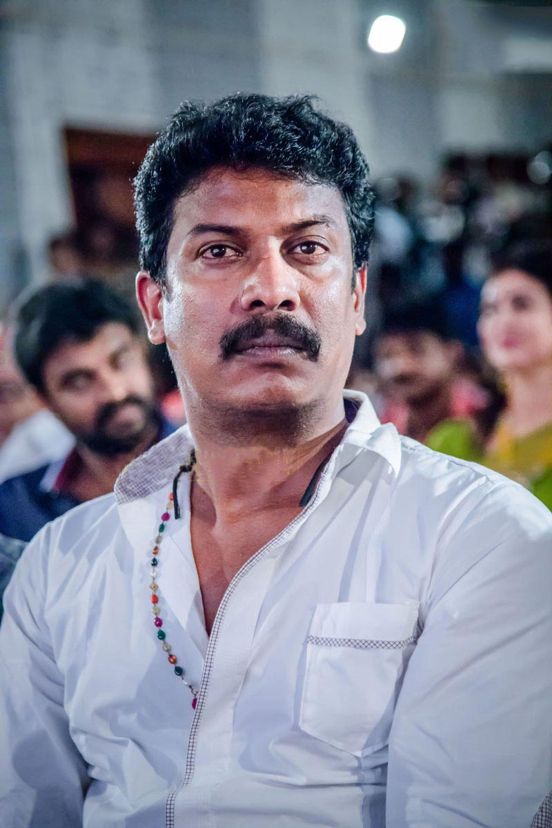 Samuthirakani at Sandamarudham Audio Launch